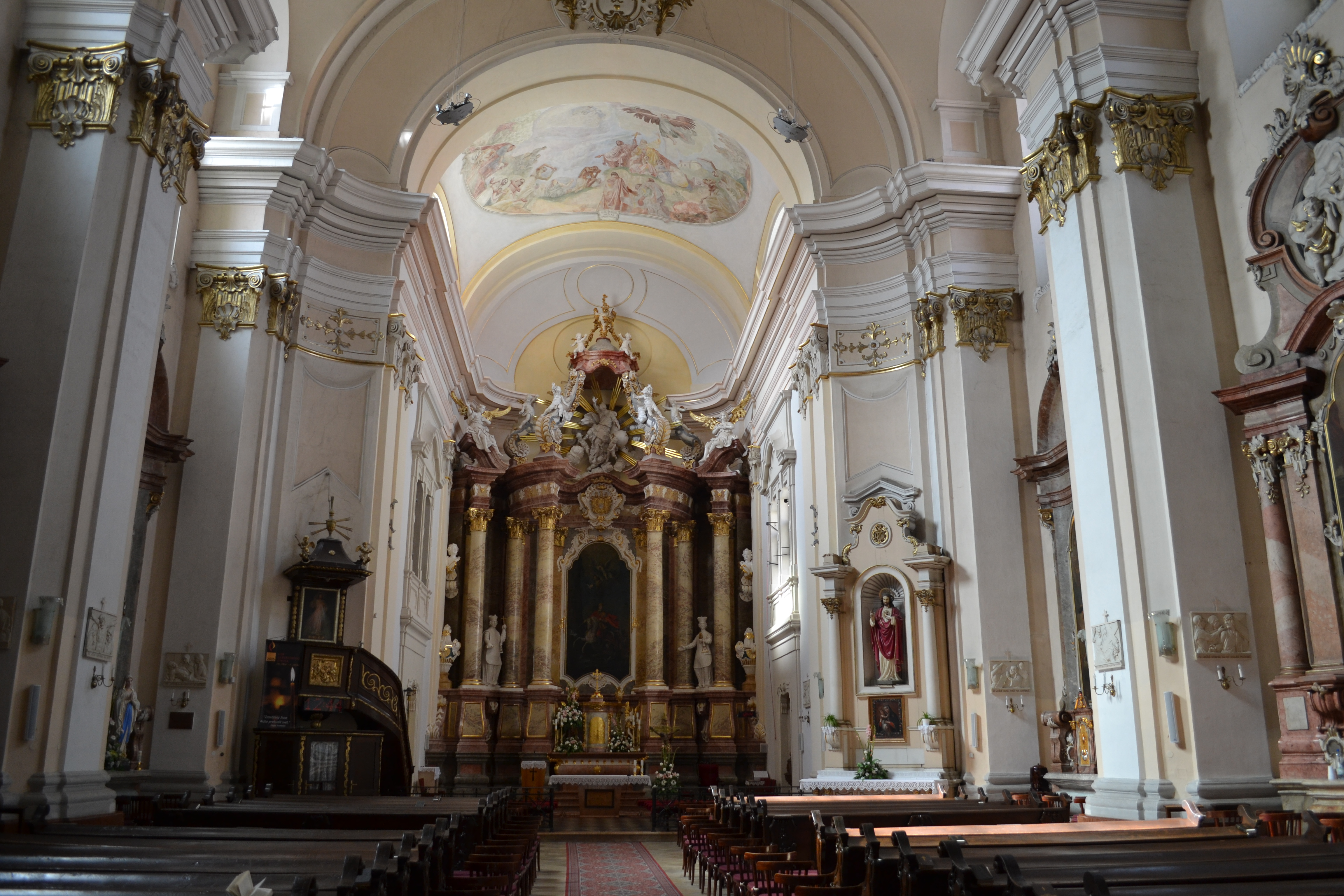 St.Ladislaus church in Nitra (interior)